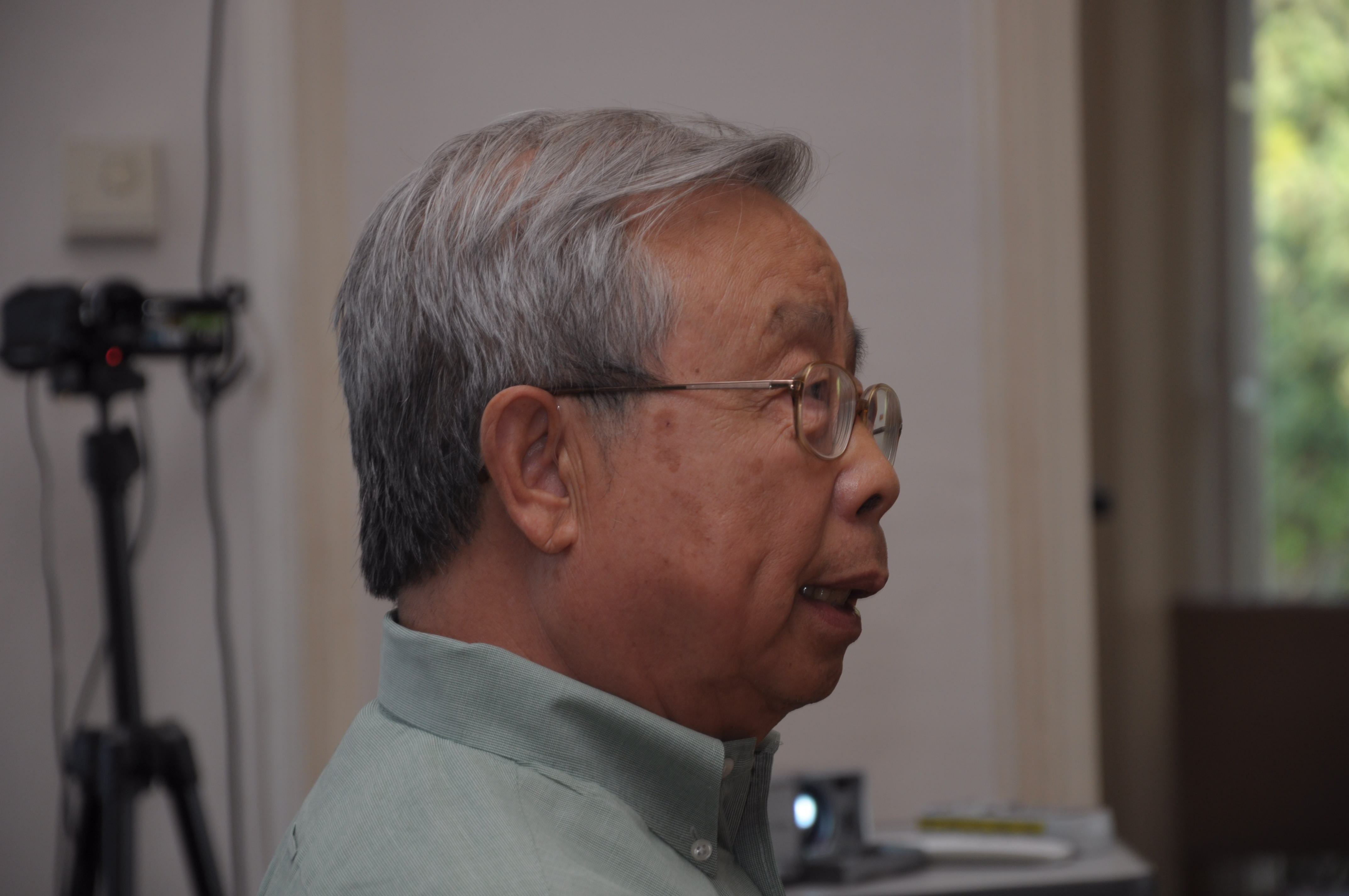 Fang Lizhi at the 2nd Galileo - Xu Guangqi meeting, Hanbury Botanic Gardens, Ventimiglia, Italy, July 2010